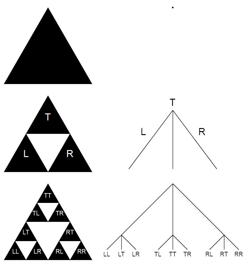 Diagram of a Sierpinski triangle and the corresponding addresses in a tree diagram where each branch has three branches.